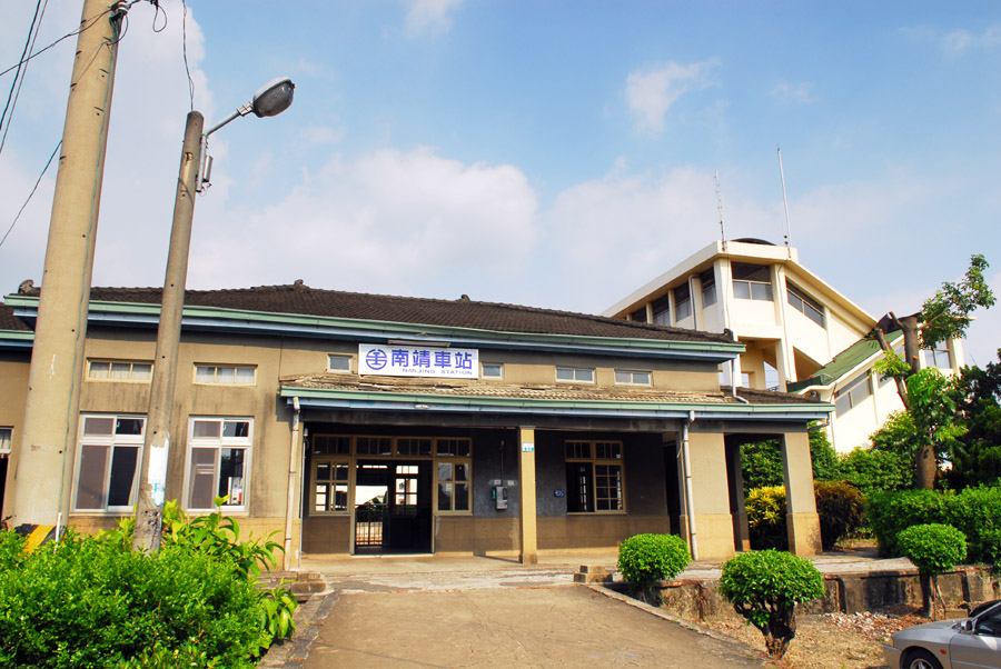 NanJing Station is a local train station of Taiwan's Western main rail line. It's located within the boundary of ShueiShang Township, ChiaYi County.